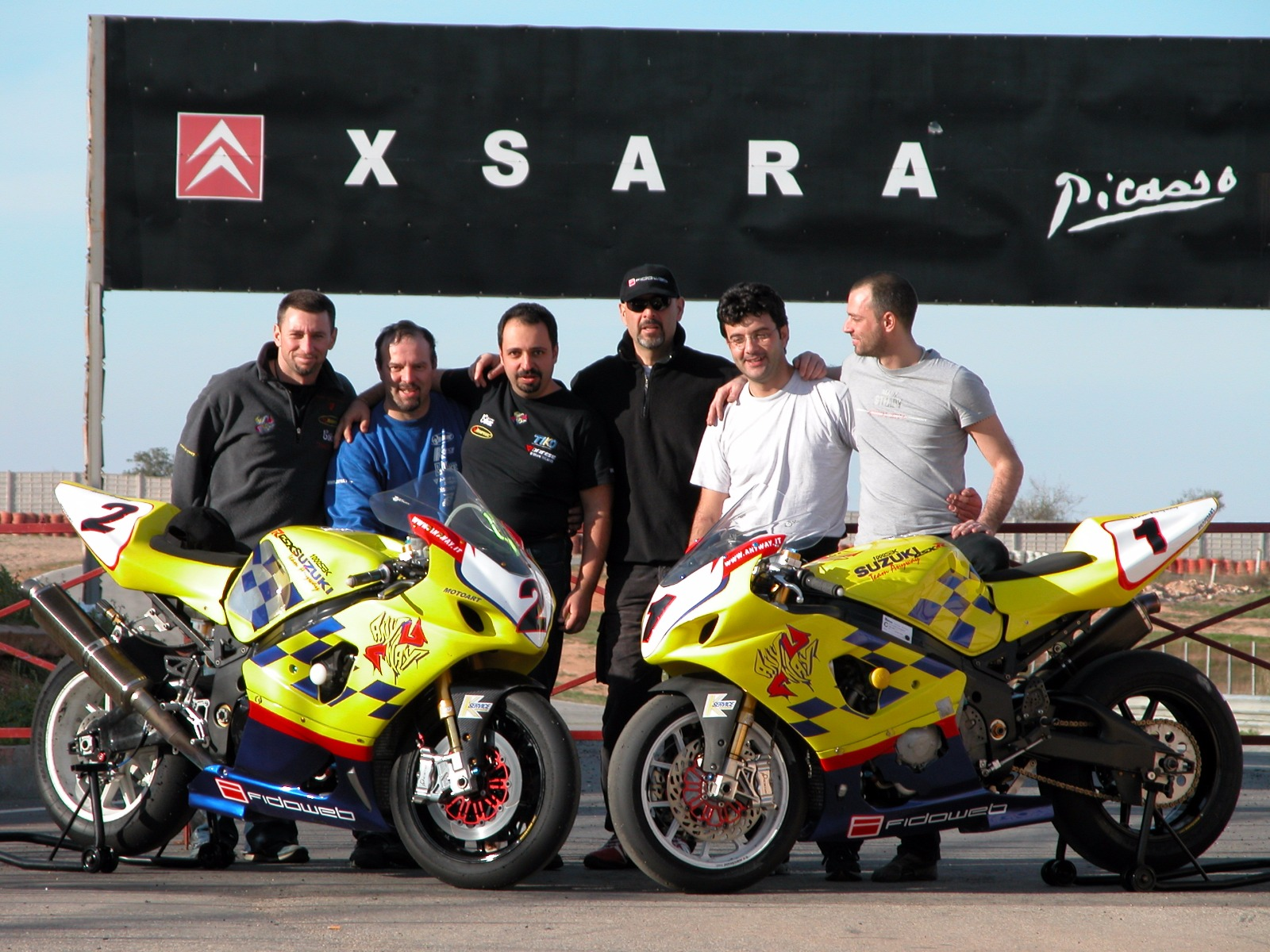 Ivan Sala Team Anyway Italy